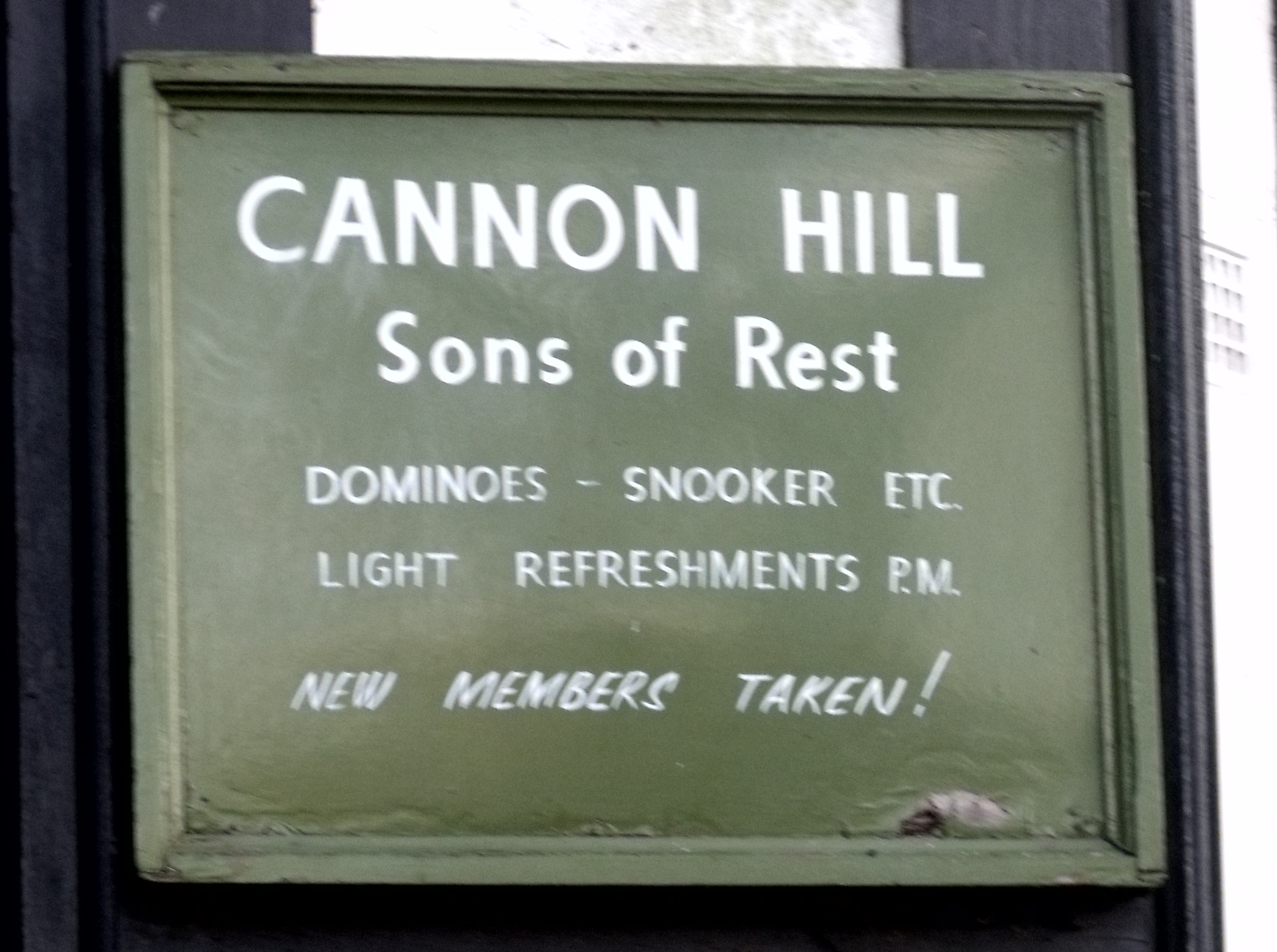 Up a path from the derelict Golden Lion Inn is this place. The Cannon Hill Sons of Rest. It was built in 1937. It was a members club. You could play dominoes and snooker here and have light refreshments. The Sons of Rest movement began in 1927, when a group of 'Industrial Veterans' met at Handsworth Park. The first purpose building was built in 1930 and the movement expanded to over 3000 members in 29 parks. At Cannon Hill members meet to socialise and play games such as snooker and dominoes. It was open to retired gentlemen.